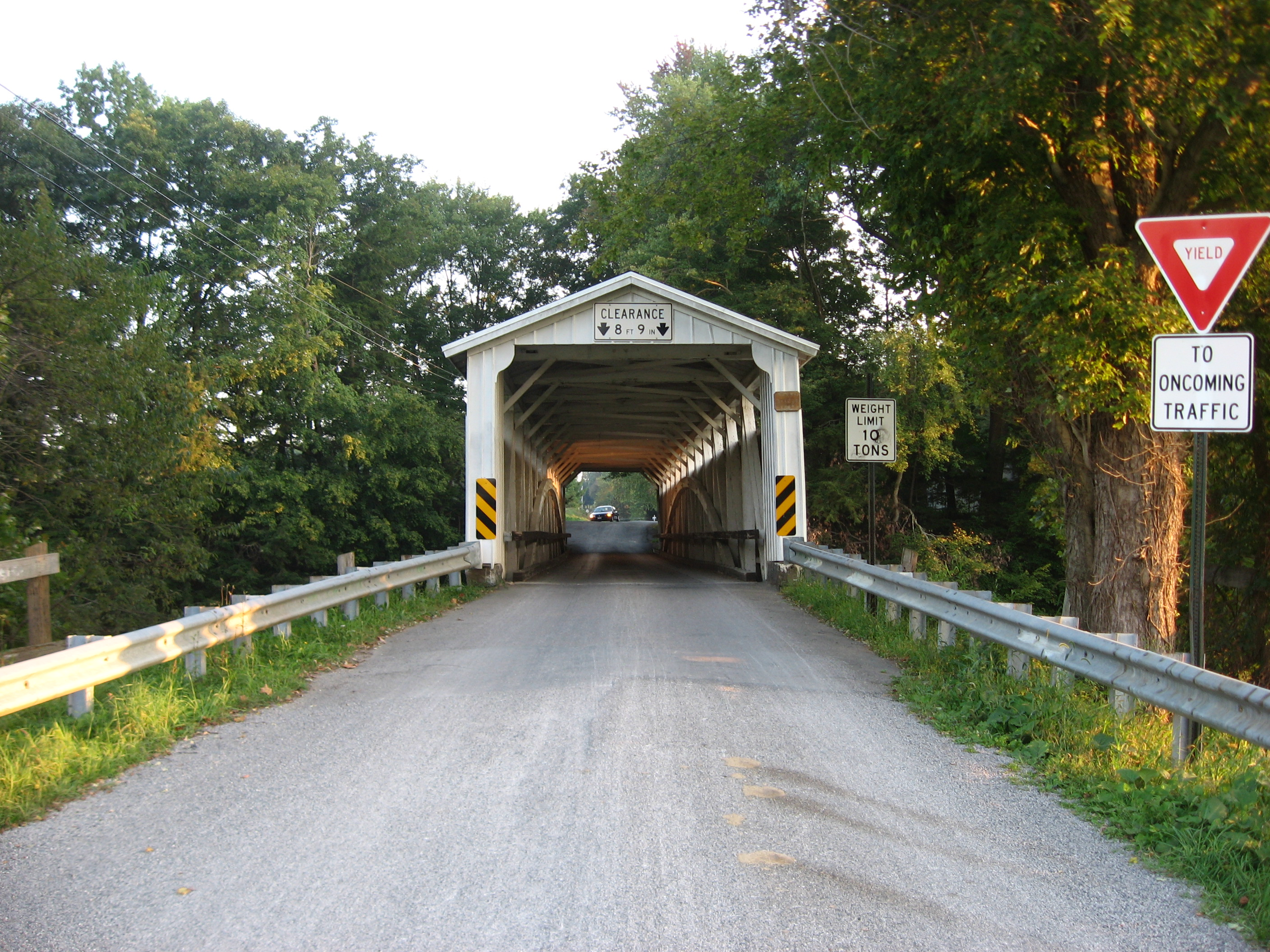 Northern portal of the Banks Covered Bridge, which carries Covered Bridge Road over the Neshannock Creek east of New Wilmington in Wilmington Township, Lawrence County, Pennsylvania, United States. Built in 1889, the bridge is listed on the National Register of Historic Places.